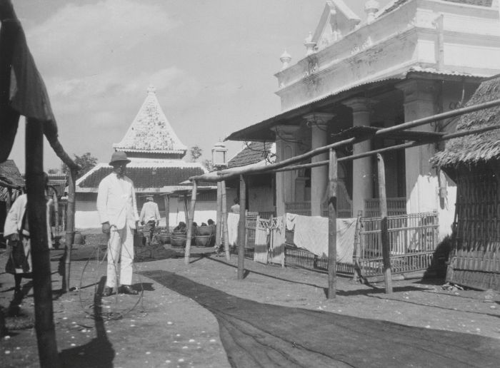 Village square at Kedungcowek with a mosque and bamboo platforms used for drying fish nets